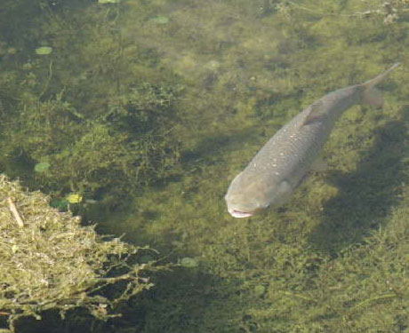 Downloaded from Credits : US Geological Survey -- Florida Integrated Science Center, Gainesville